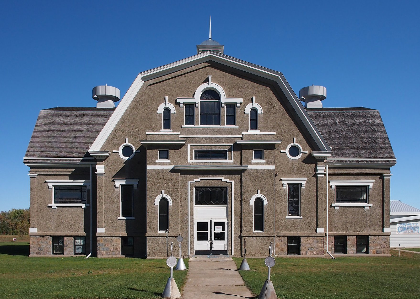 Hewitt Public School, 514 N Wisconsin St, Hewitt, Minnesota, USA. Viewed from the west-southwest.